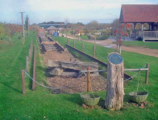 The Sumatra Railway Memorial Built by 5,000 prisoners of war and 30,000 locals, the 140-mile Sumatra railway was intended to move coal and troops across the island from Pakenbaroe on the north-east coast to meet up with an existing railway at Muaoro in the west of the island. The railway was completed on VJ Day, 15th August 1945. It was only ever used to transport POWs out of the area and then quickly became overgrown by the jungle. On the right is the Far East Prisoners of War Memorial Building, which is a harrowing experience to visit and graphically reflects the failure of Japan to ratify the 1929 Geneva Convention.